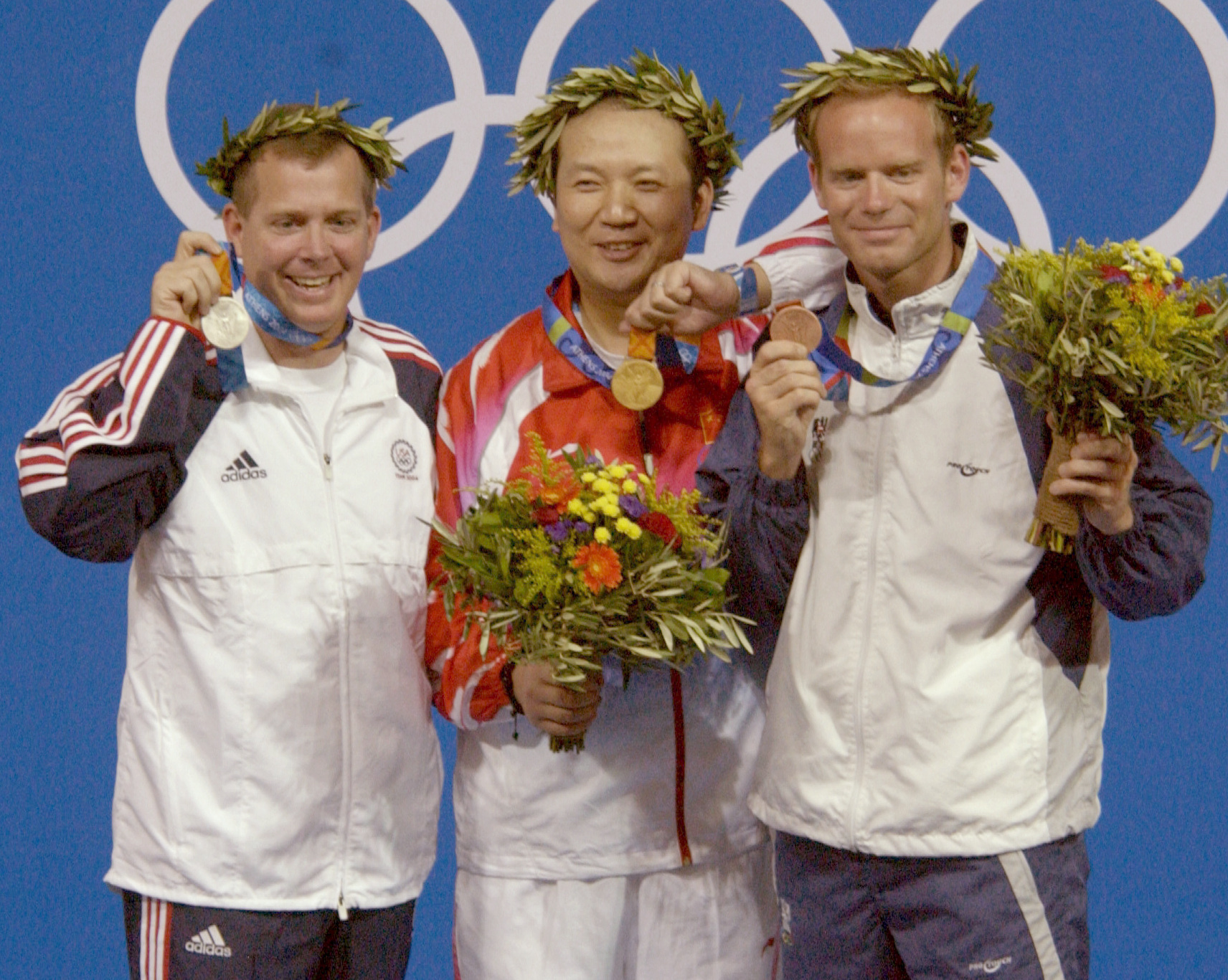 Army Maj. Michael Anti (left) holds up his Silver medal following the 2004 Olympics medal ceremony for the Men's 50m Three-Position Rifle Competition at the Markopoulo Shooting Center in Athens, Greece, on Aug. 22, 2004. Zhanbo Jia from China (center) took the Gold and Christian Planer (right) from Austria took the Bronze. Anti is assigned to the U.S. Army Marksmanship Unit, Fort Benning, Ga. DoD photo by Master Sgt. Lono Kollars, U.S. Air Force. (Released)